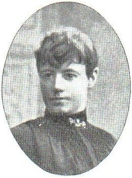 Swedish actress Mina Backlund-Cygnaeus. Image from "Svenskt porträttgalleri / XXI. Tonkonstnärer och sceniska artister (biografier af Adolf Lindgren & Nils Personne)"